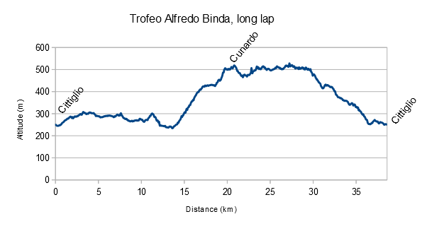 Long lap of the Trofeo Alfredo Binda 2017